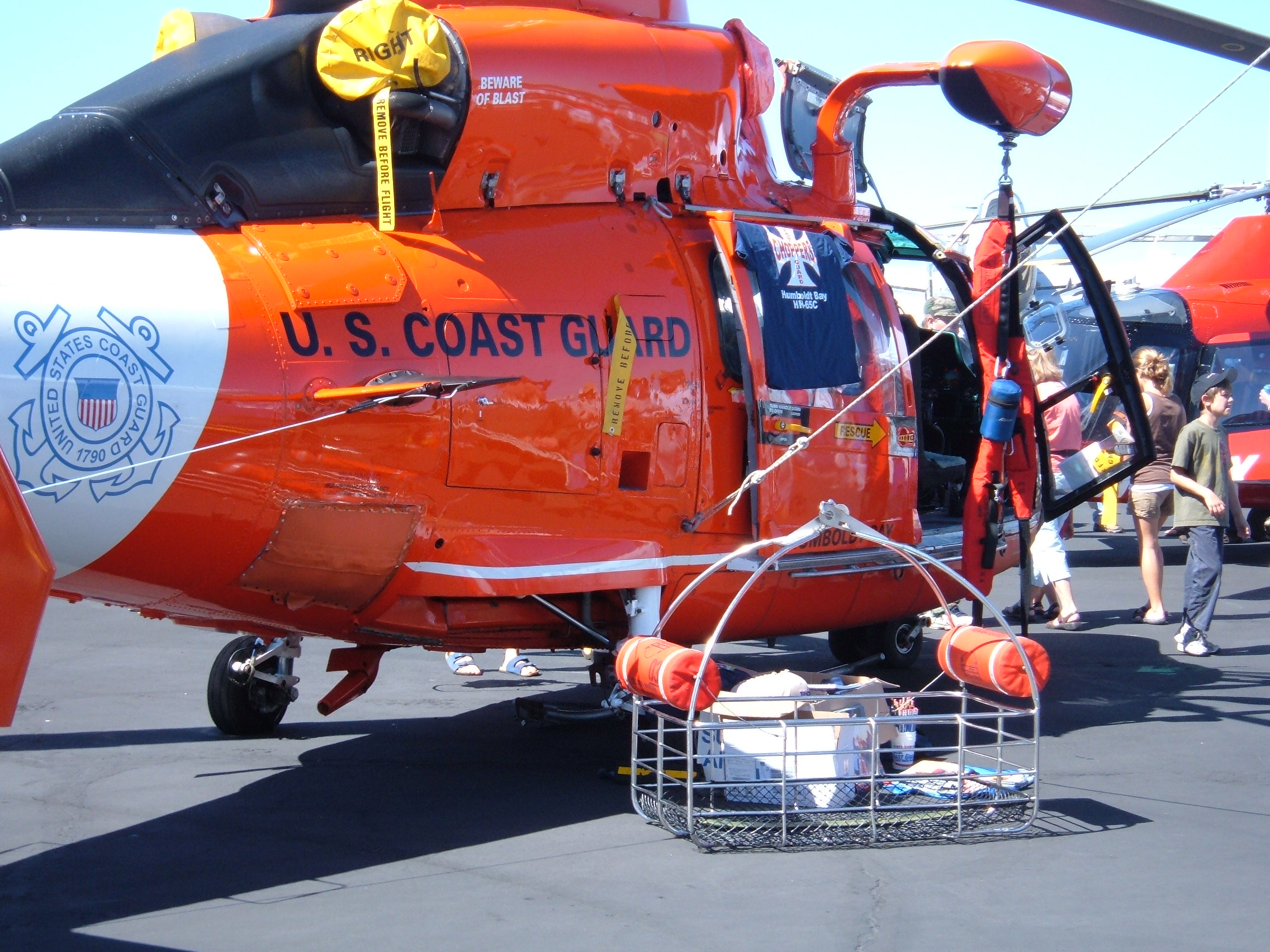 Starboard view of a US Coast Guard HH-65 Dolphin helicopter with rescue basket. Taken at the Wings over Wine Country 2007 air show at the Charles M. Schulz - Sonoma County Airport in Sonoma County, California.